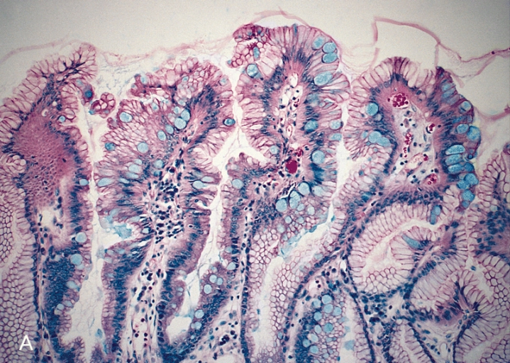 ESOPHAGUS-STOMACH: MUCIN STAINS OF BARRETT'S MUCOSA Alcian blue stain of Barrett's mucosa shows the blue-staining goblet cells, a few specialized columnar cells, and the clear-staining gastric-type surface columnar cells.